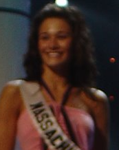 Maria Lekkakos, 2004 during rehearsals for the Miss USA 2004 pageant.